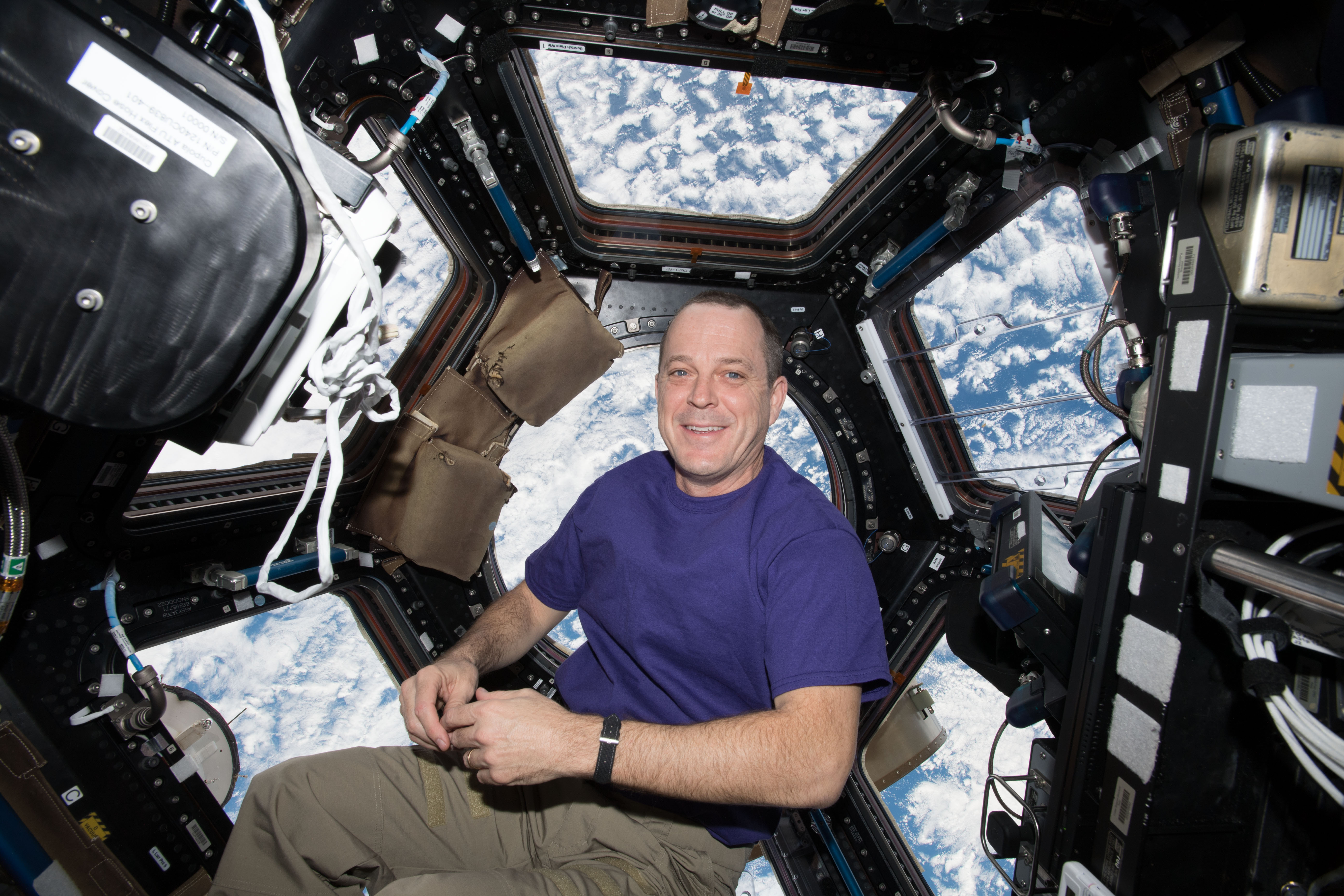 NASA astronaut and Expedition 55 Flight Engineer Ricky Arnold rests inside the seven-windowed cupola as the International Space Station orbits above the south Atlantic Ocean.